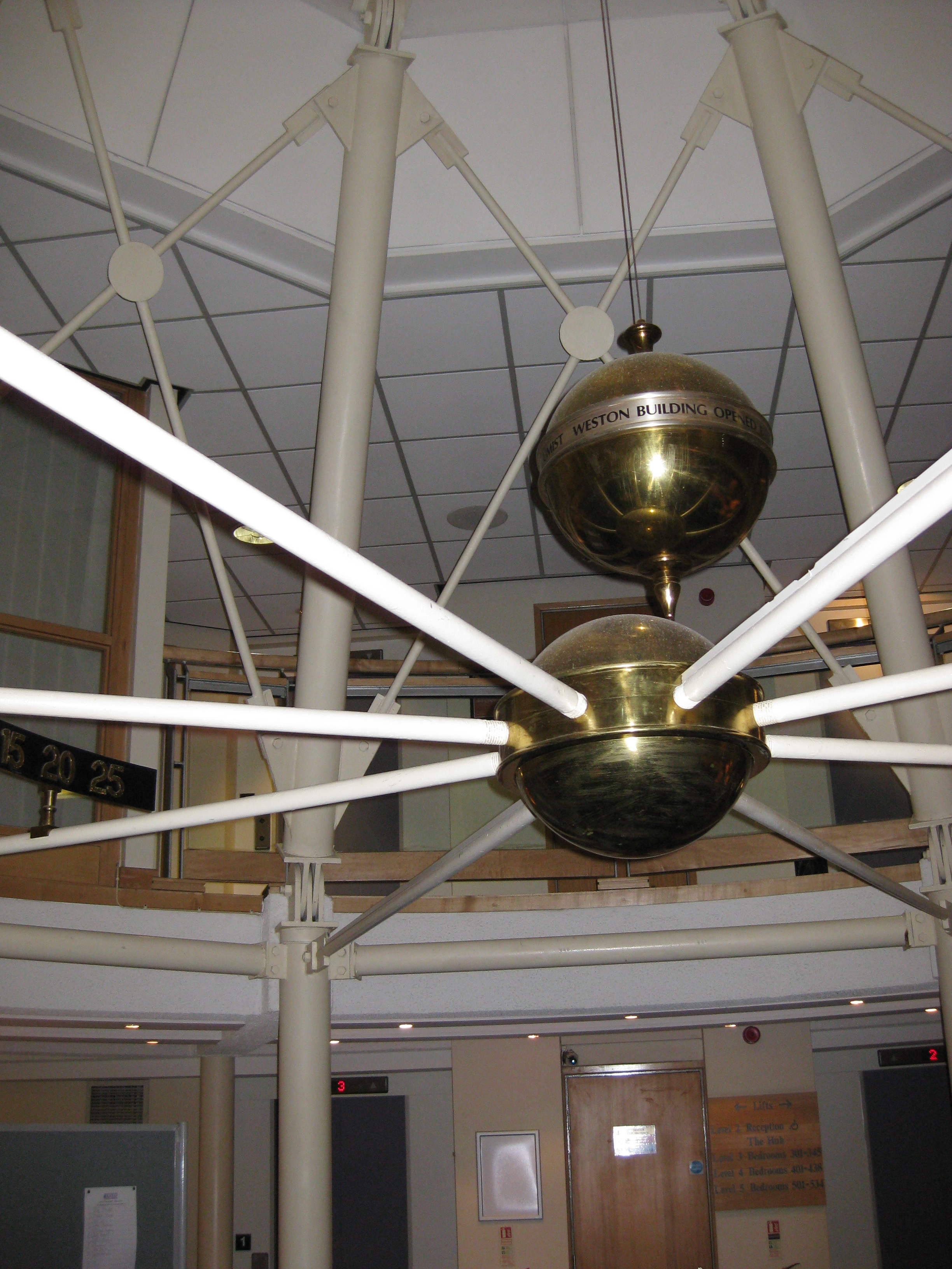 Foucault pendulum in the Weston Building of Manchester Conference Centre, Sackville Street, Manchester M1 3BB. Set in motion by Prince Phillip, 31 July 1992